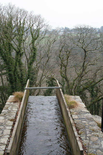 Luxulyan Valley. The end of the leat from Luxulyan, brought across the valley via the Treffry viaduct. The original waterwheel here powered an incline on Treffry’s railway to Pontsmill. A new valley railway made this system redundant in 1874 and a replacement 40’ waterwheel was installed to drive a china stone mill, operated until 1914. For more information see the Wikipedia article Luxulyan Valley.